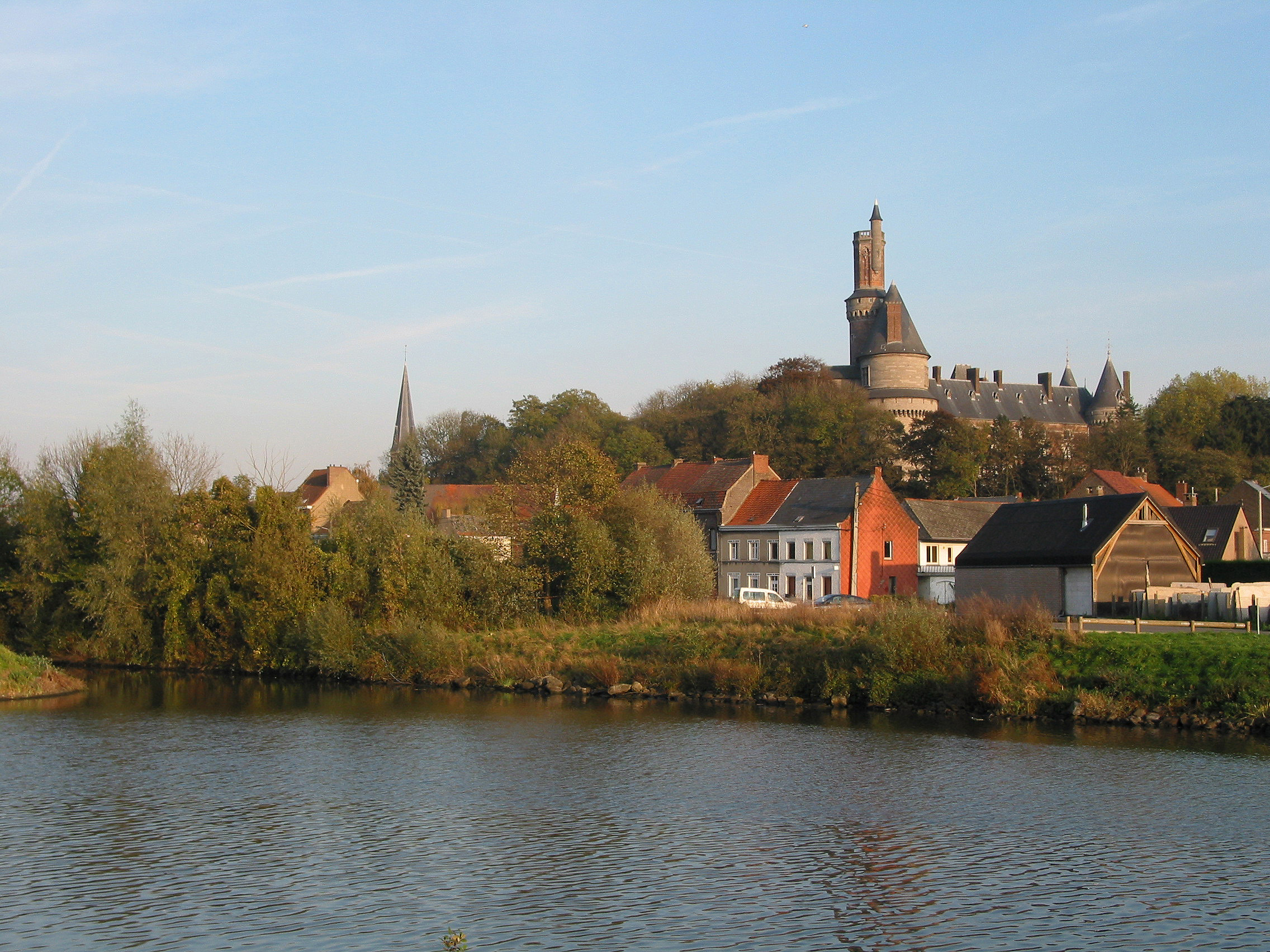 Antoing (Belgium), the Princes de Ligne castle (XIII-XVIth centuries).